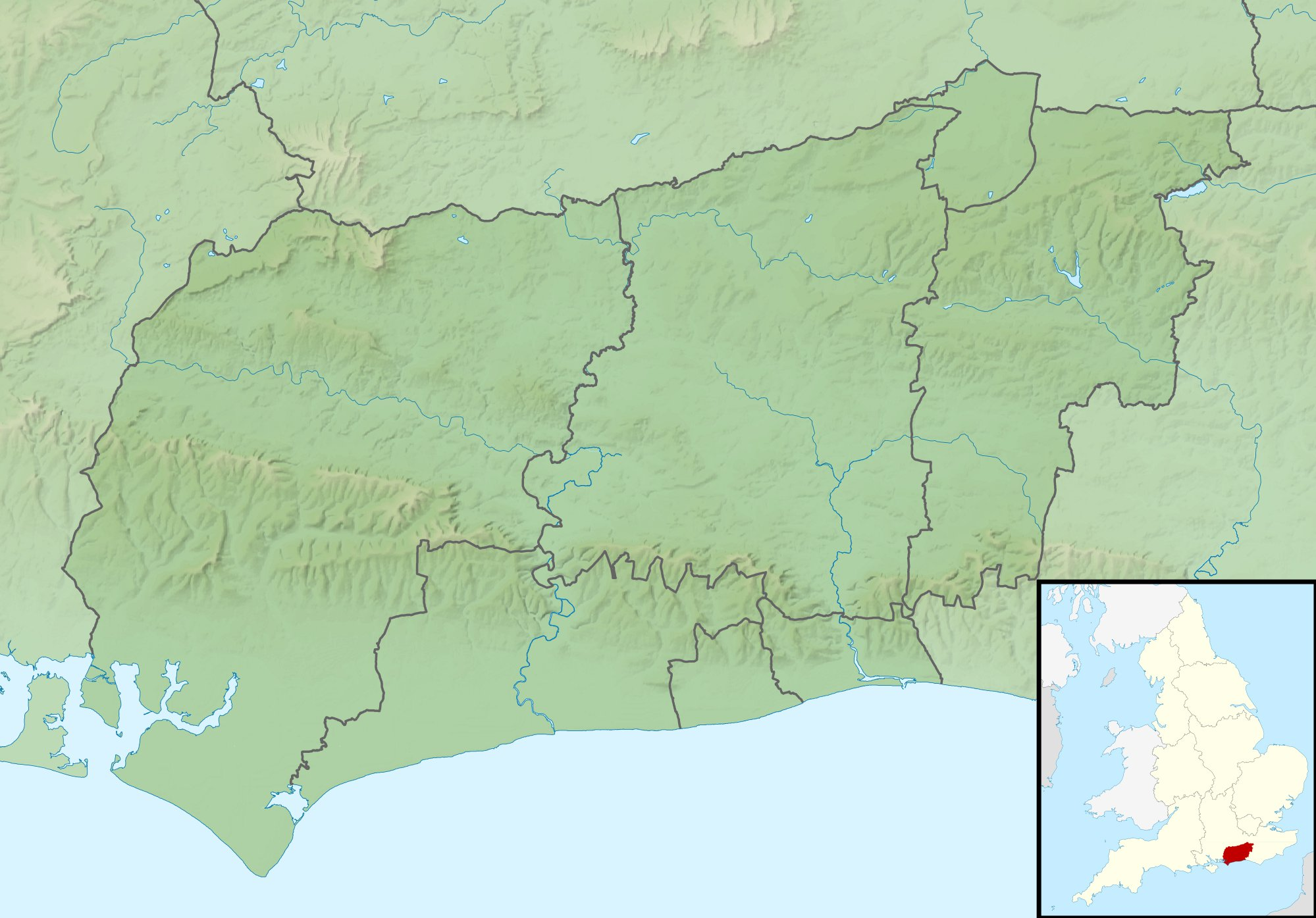 Relief map of West Sussex, UK. Equirectangular map projection on WGS 84 datum, with N/S stretched 155% Geographic limits: West: 1.01W East: 0.10E North: 51.20N South: 50.70N